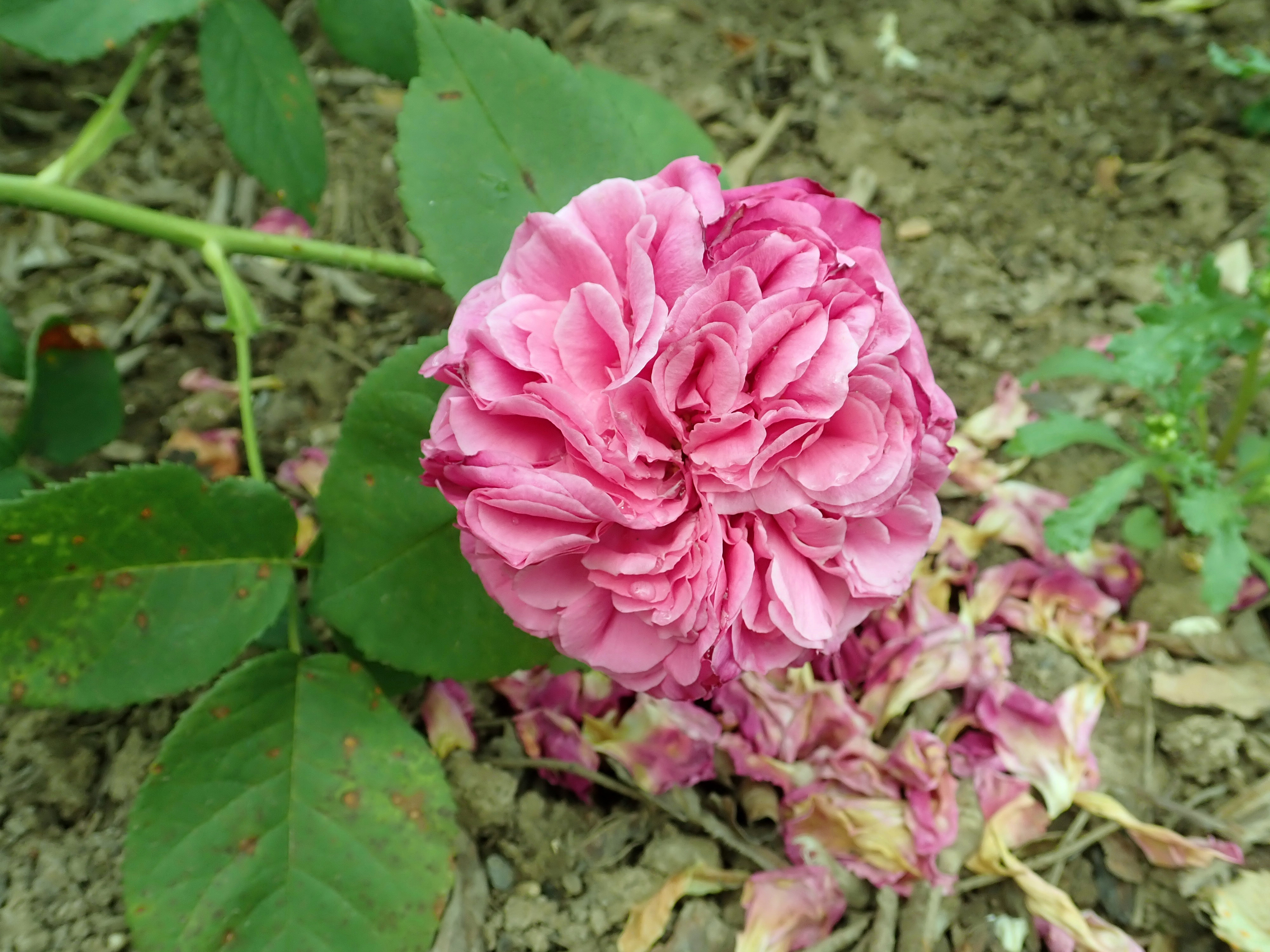 Rosa ‘Souvenir de Mme. de Corval’ (Gonod, 1867), Europa-Rosarium Sangerhausen.